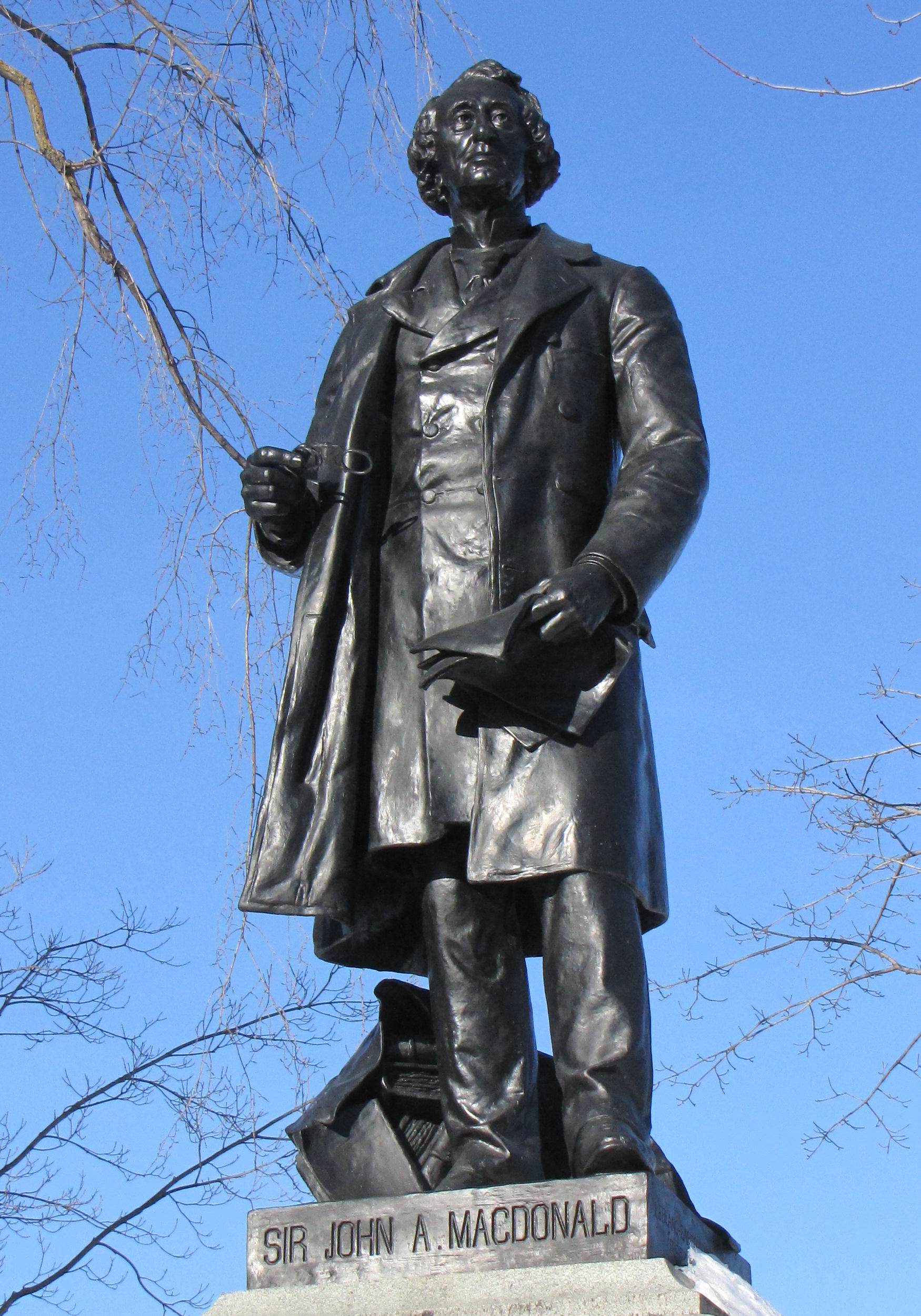 Sir John Alexander Macdonald (1815-1891) statute, Parliament Hill, Ottawa, Ontario, Canada